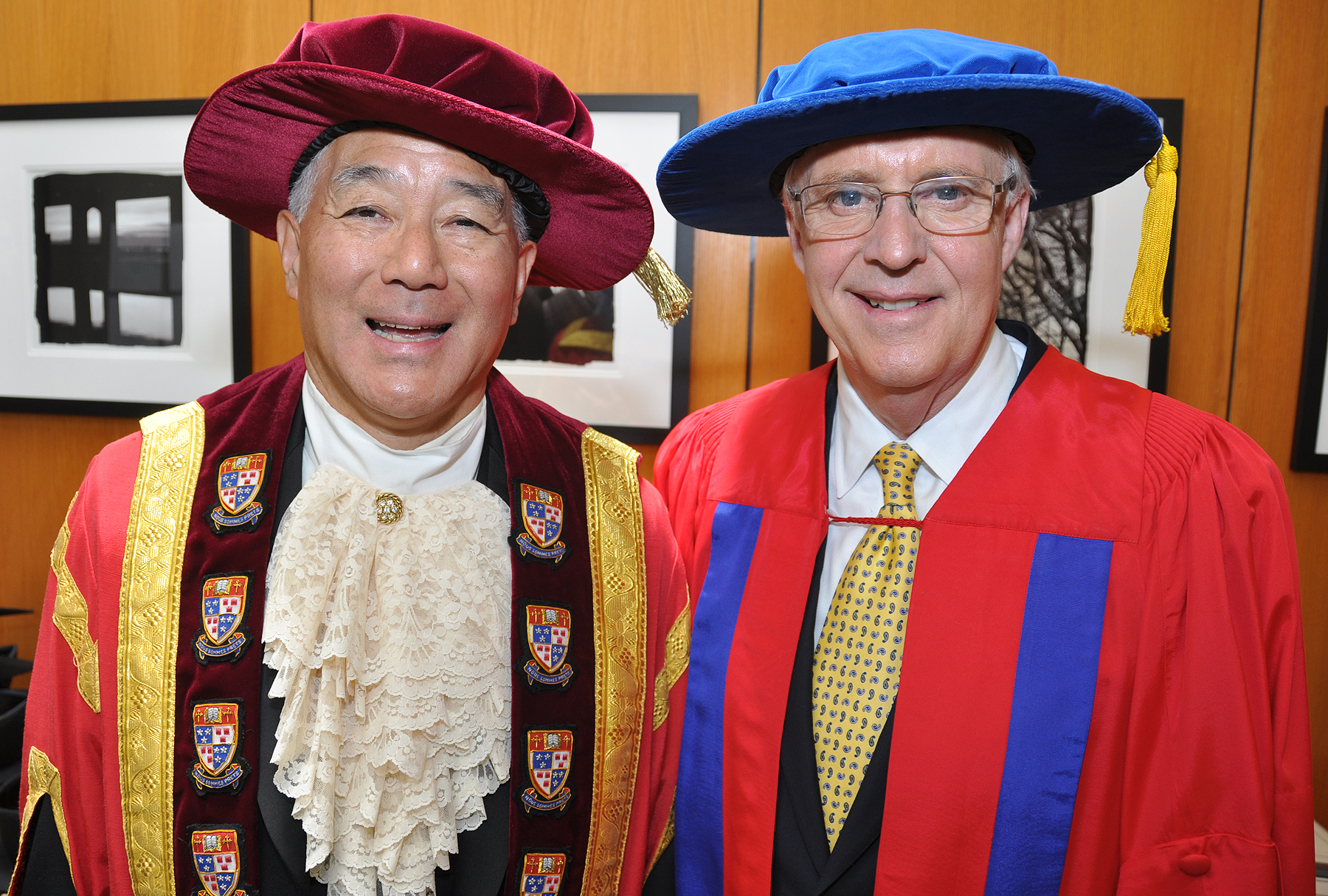 Legendary sports broadcaster Brian Williams was recognized with an honorary degree by SFU on June 16, 2011. He poses with SFU chancellor Brandt Louie.